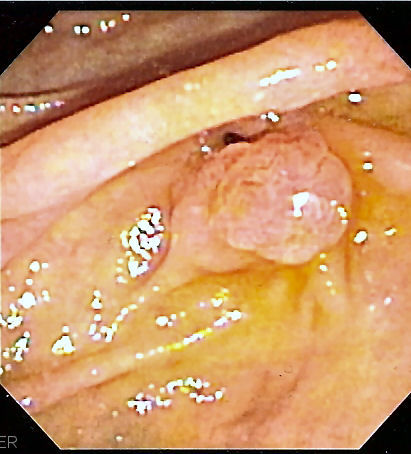 Endoscopic image of ampulla as seen on duodenoscopy. Released on permission of patient as GFDL -- Samir धर्म 06:11, 10 August 2006 (UTC)